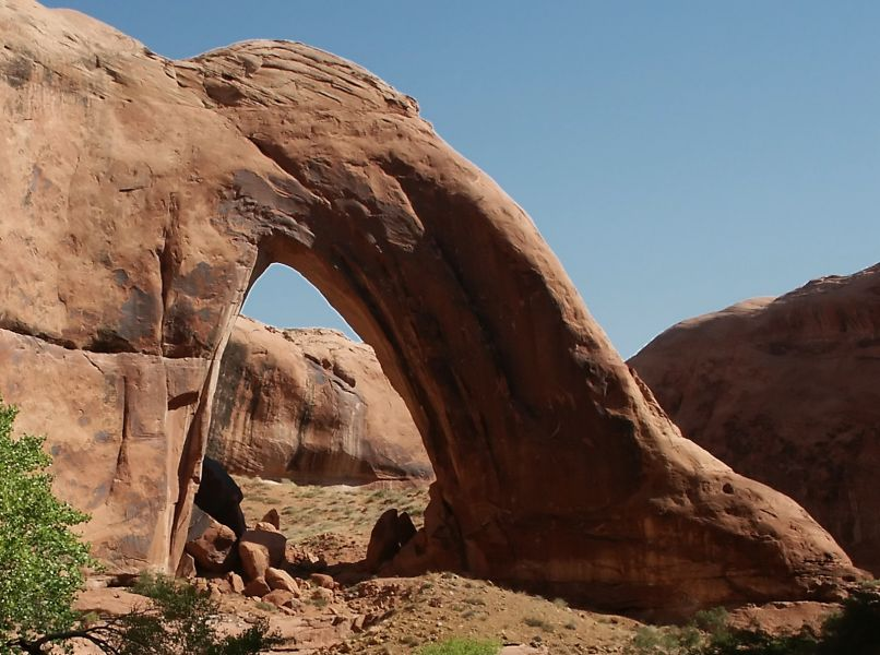 Broken Bow Arch, in Willow Gulch, a branch of Fortymile Gulch and one of the Canyons of the Escalante. The arch opening, formed in a layer of Navajo Sandstone, is estimated to be 94 feet wide and 100 feet high.